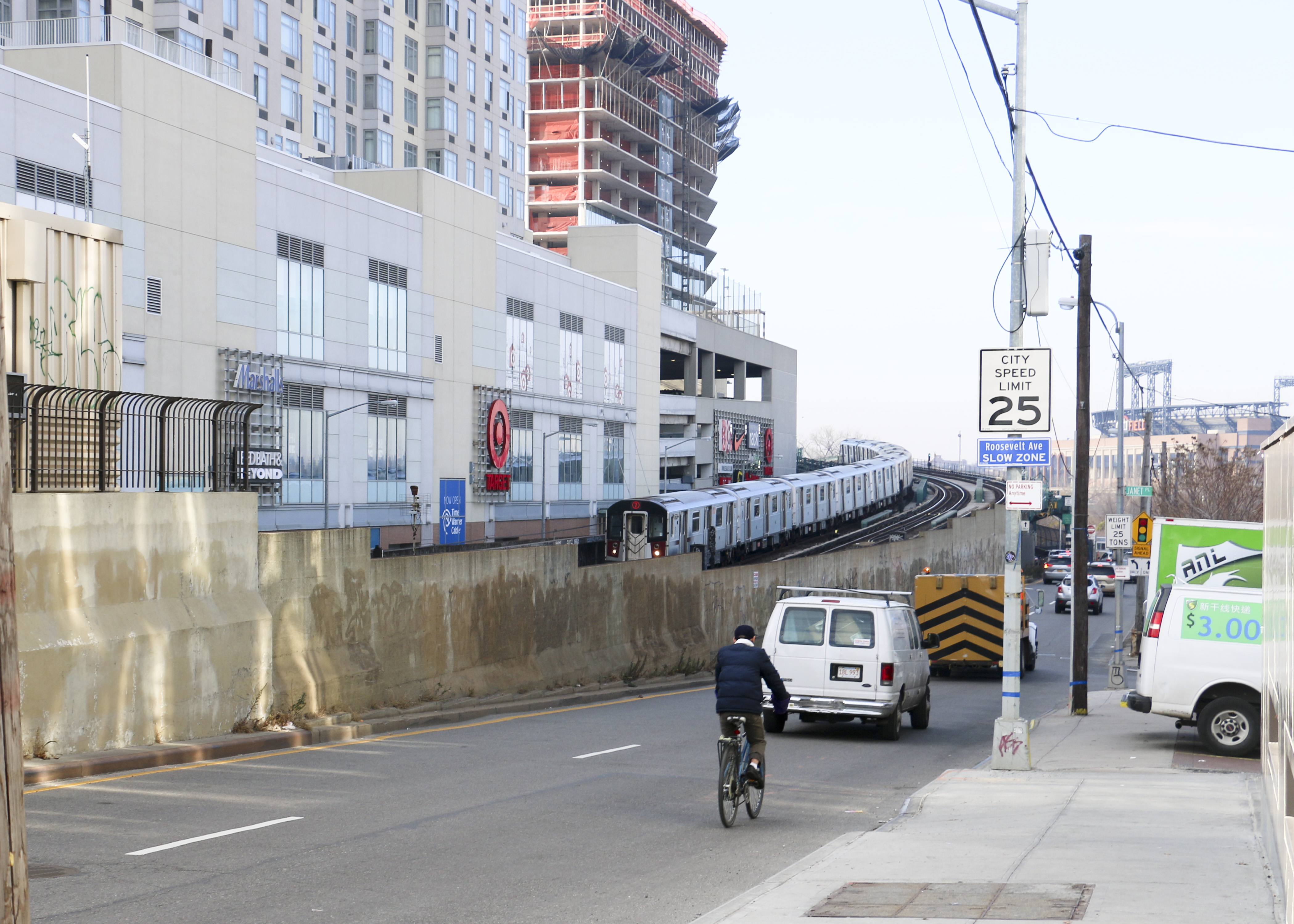 Downtown Flushing